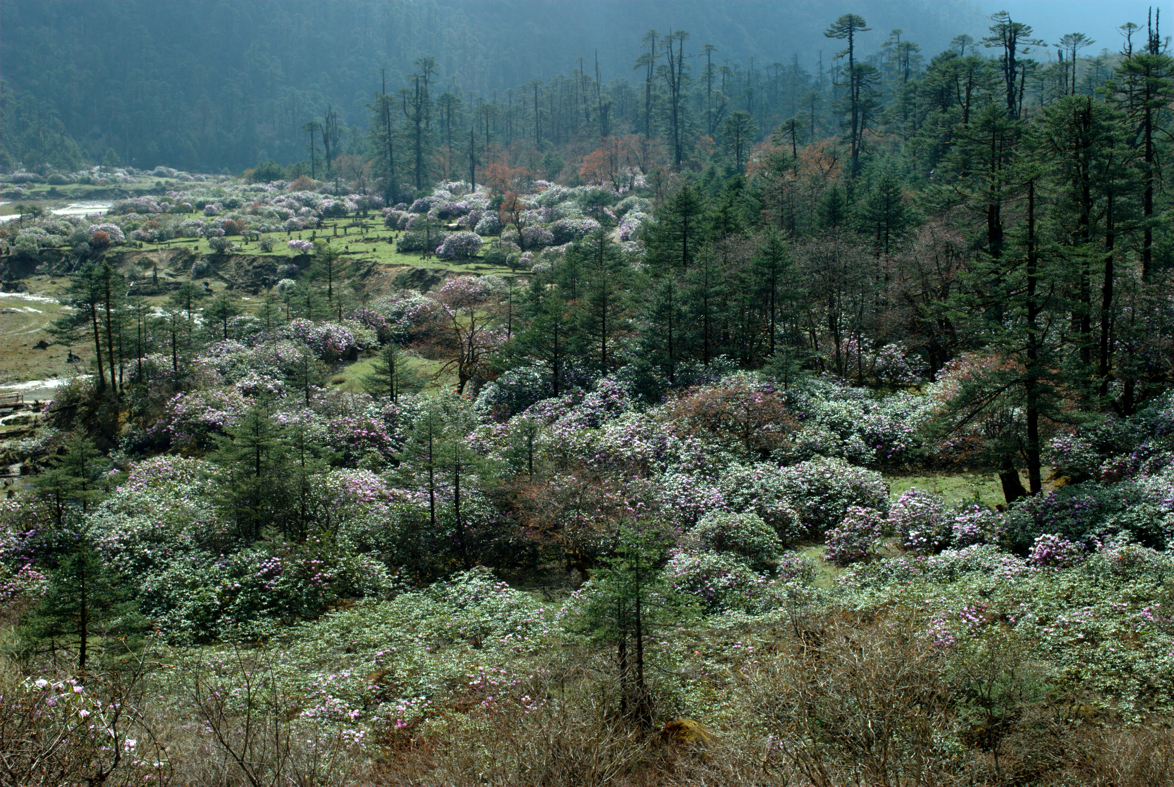 This is North Sikkim for you during spring season..its time for flowers everywhere. Wildflowers of Himalaya Nature scene of India